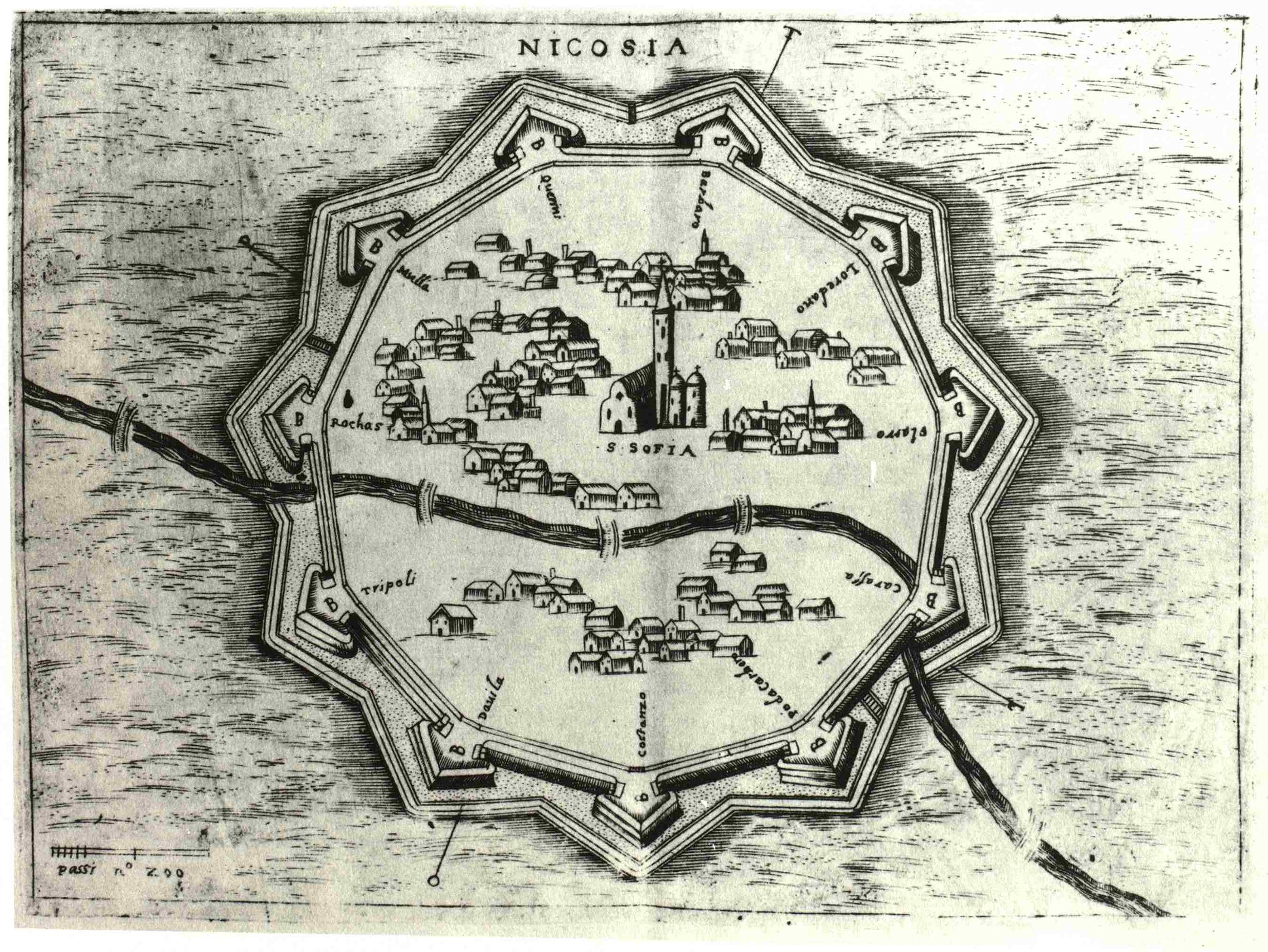 The town of Nicosia, Cyprus (engraving).